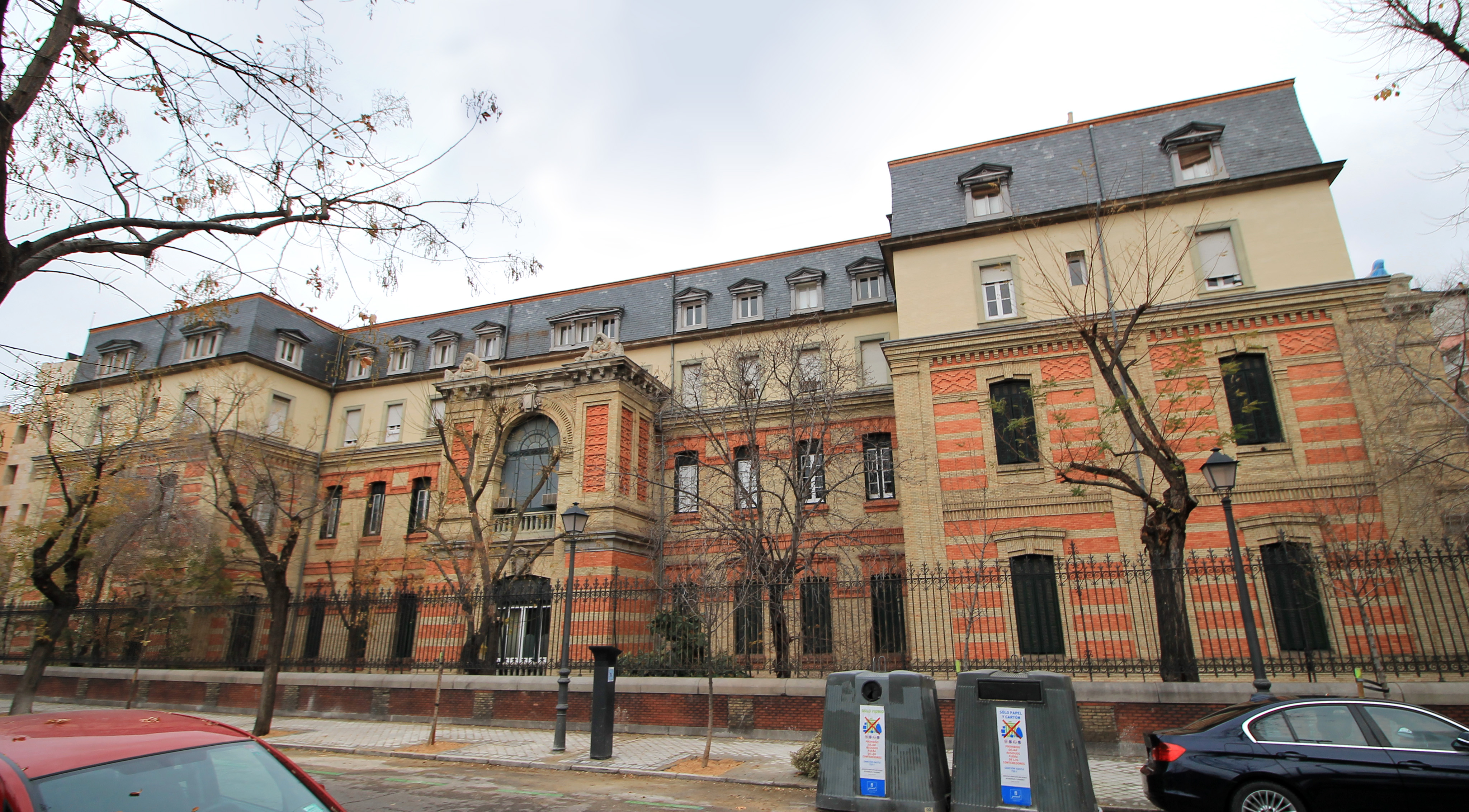 Façade of Instituto Oftálmico Nacional in Madrid (Spain).